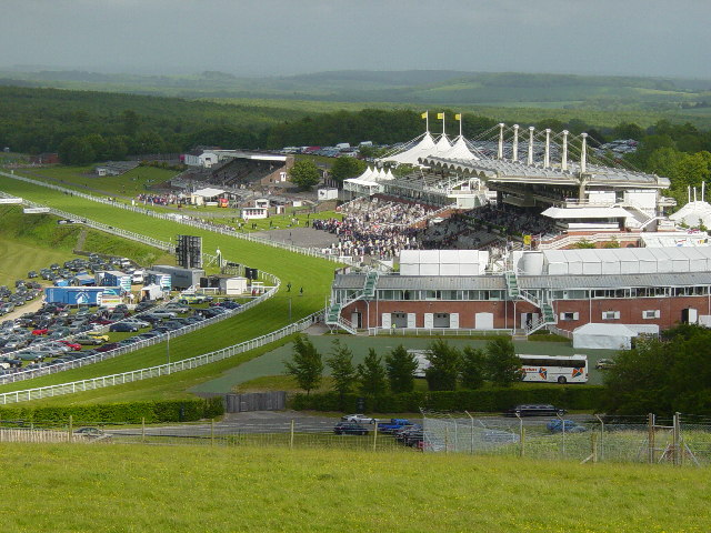 Goodwood Horseracing Course. Looking ESE from St Roche's Hill. Horse racing has been going on at this location since 1802.